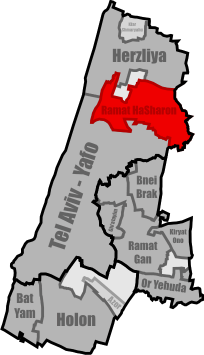 Location of Ramat HaSharon within the Tel Aviv District.